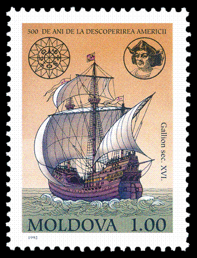 Stamp of Moldova